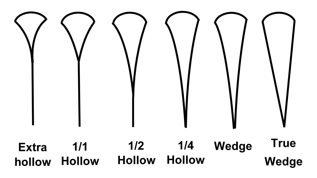 Blade hollowness scale See also hollowness scale